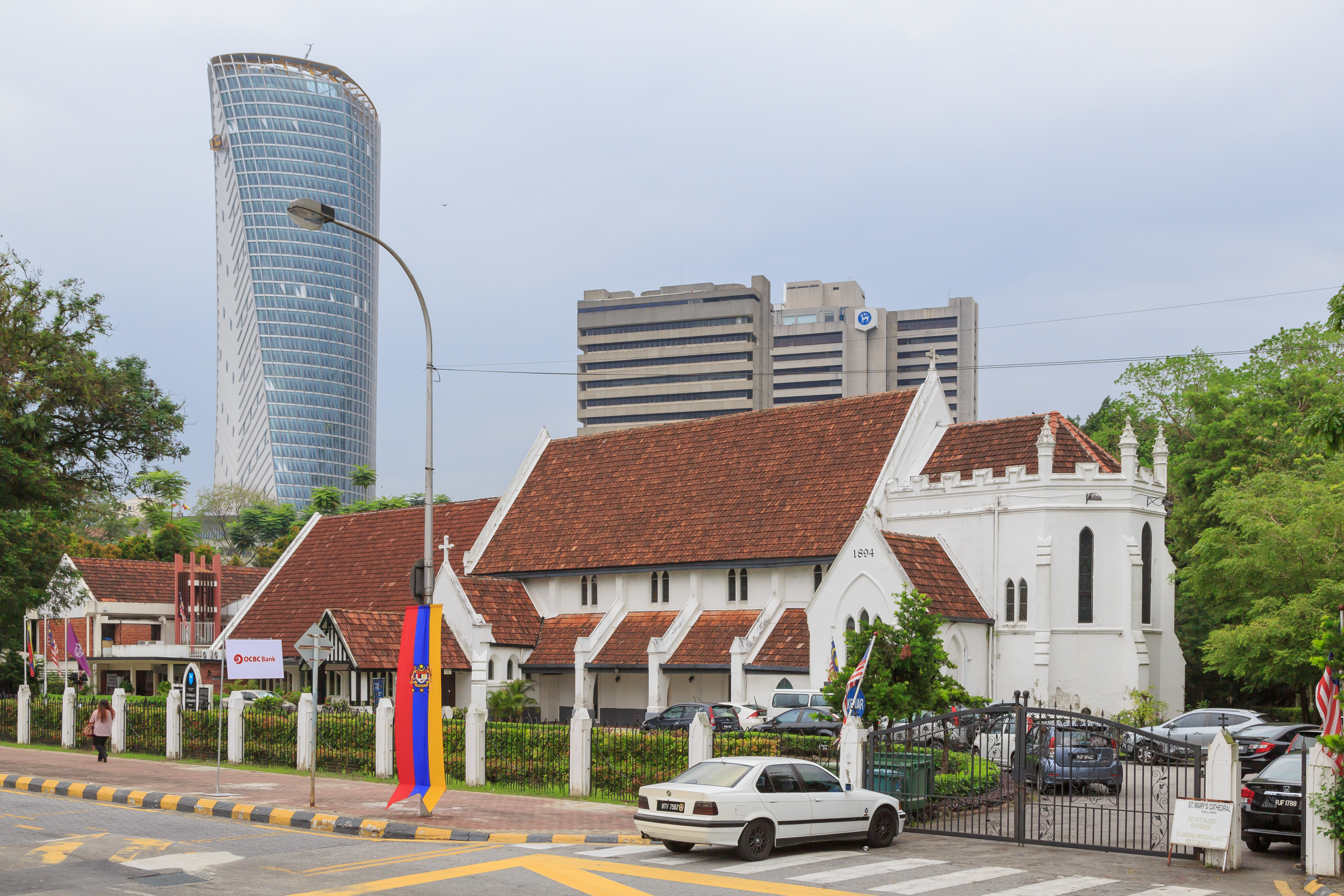 Kuala Lumpur, Malaysia: St. Mary's Cathedral Kuala Lumpur (anglican)